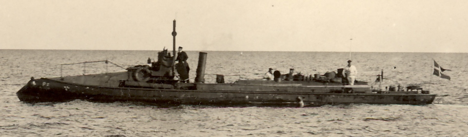 The Danish Torpedobaad 2. Klasse Nr 6. was renamed as Patrouillebaad Nr. 2 in 1912, serving under that name until 1916. Attribution: Forsvarets Bibliotek (Danish Defence Library).